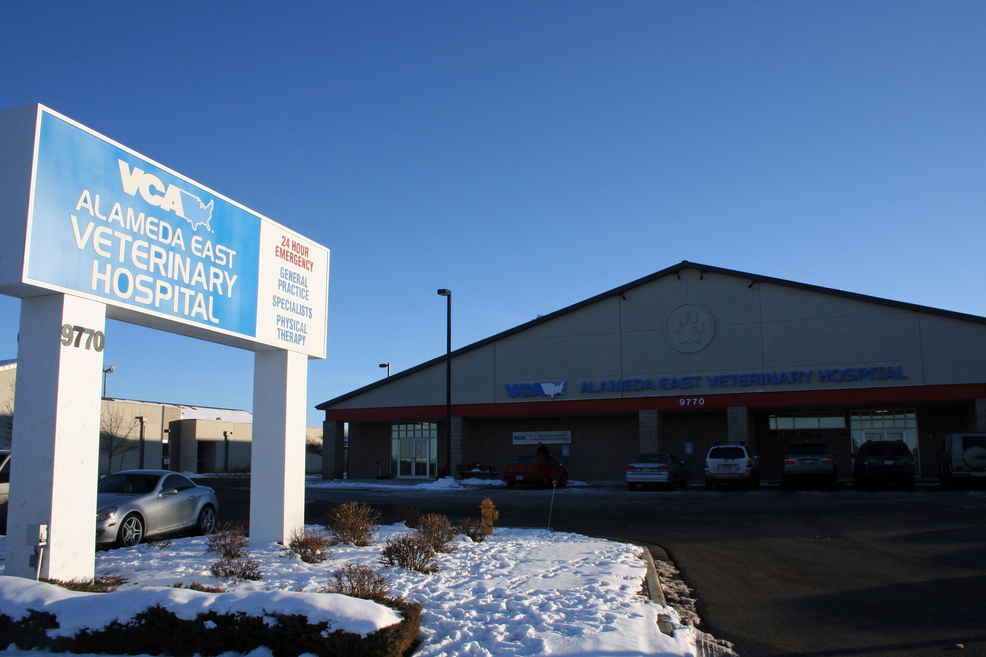 Alameda East Veterinary Hospital in Denver, Colorado